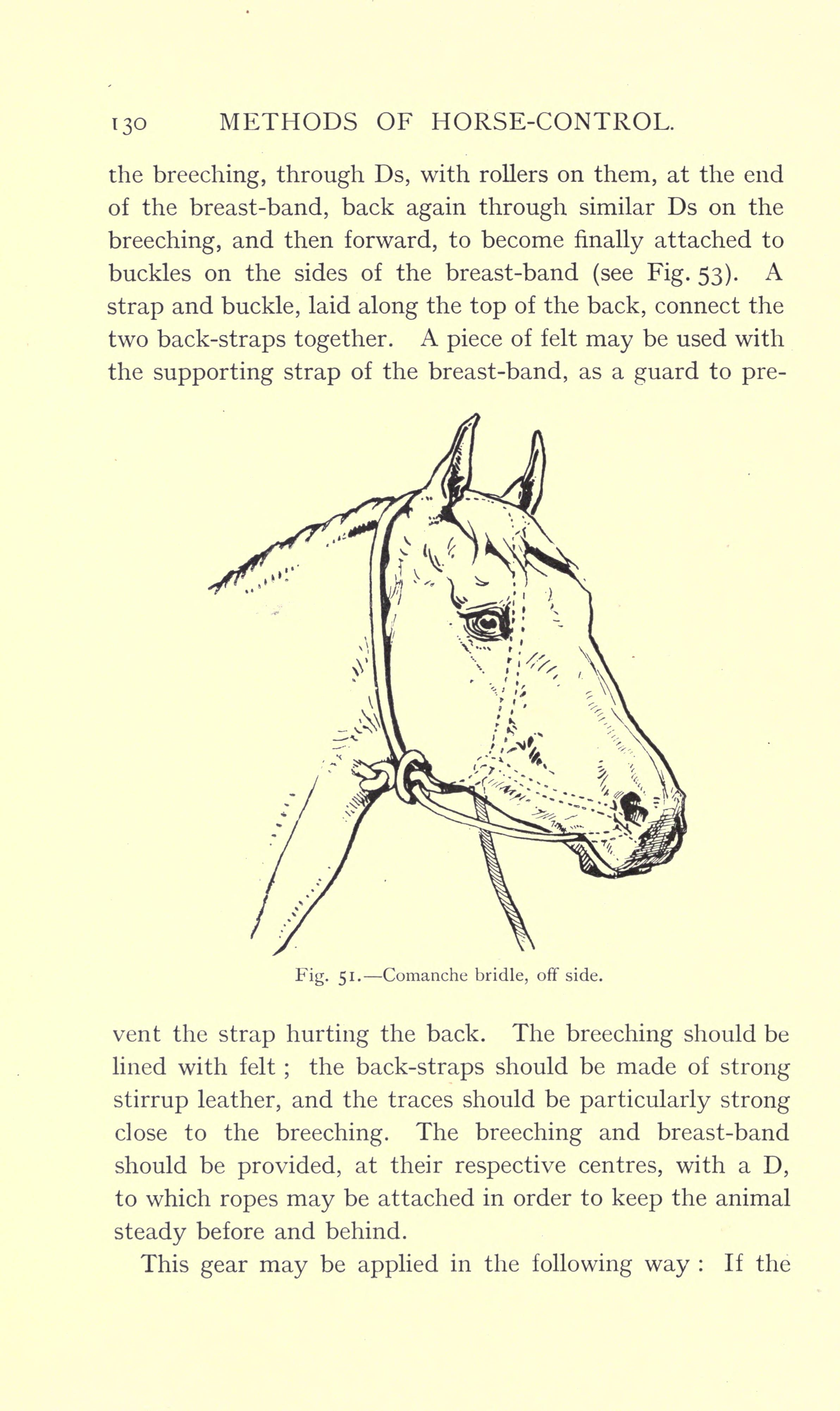 Illustrated horse-breaking, by M. Horace Hayes ... Illustrated by J. H. Oswald Brown and by photographs specially taken.